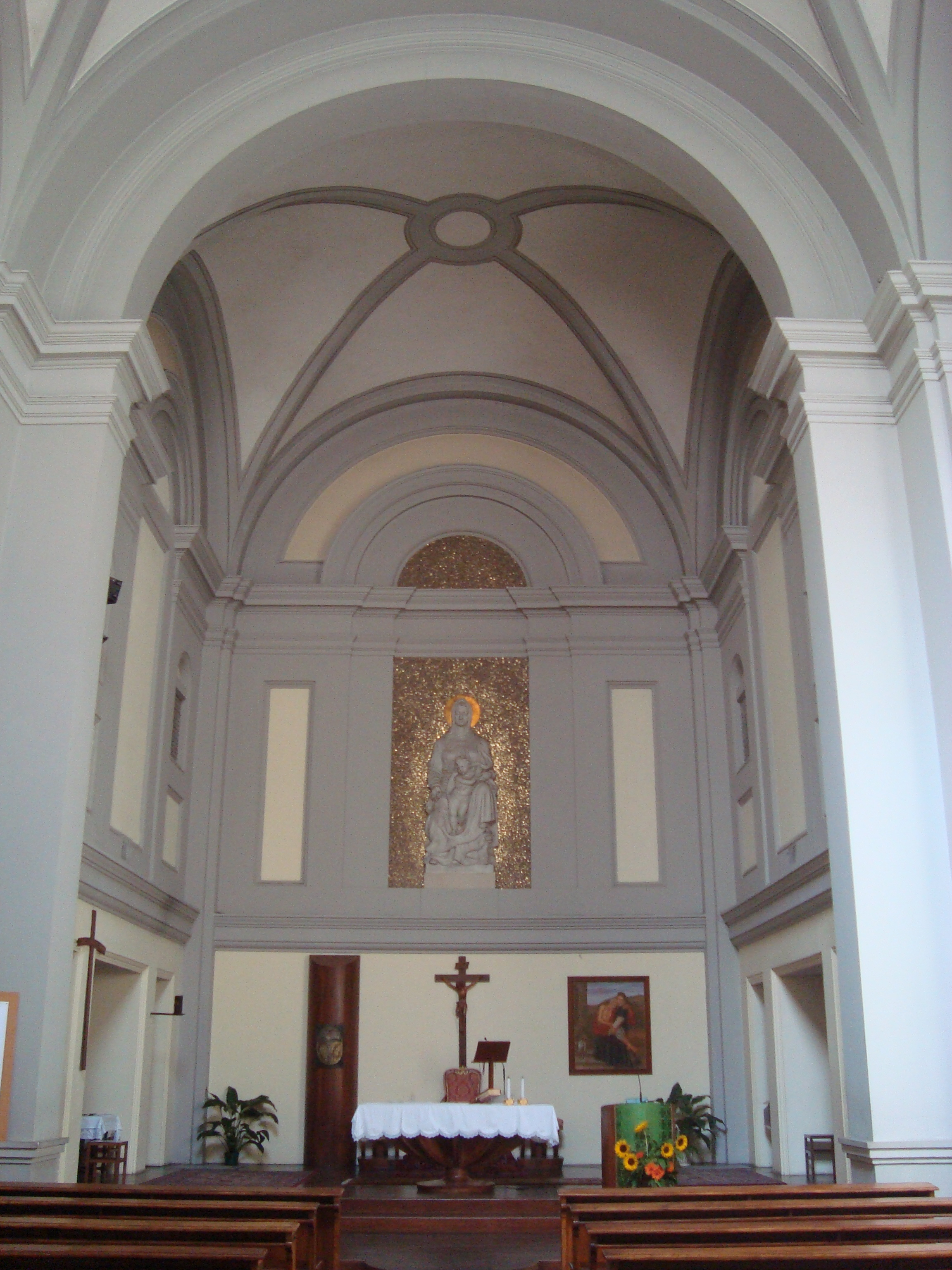 Interior view of the church San Luigi Gonzaga in Rome